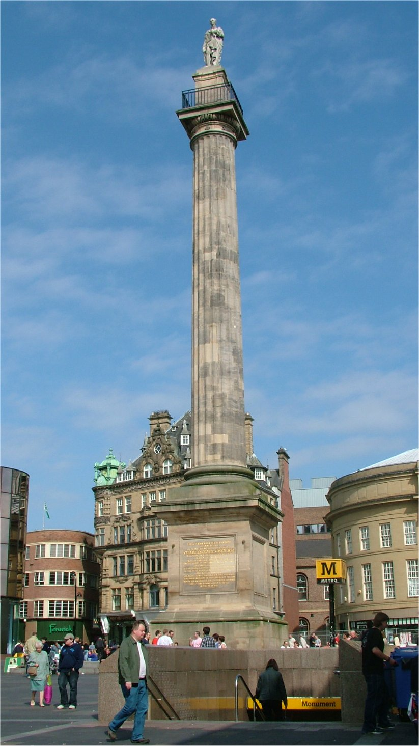 Grey's Monument, above the Monument Tyne and Wear Metro station in Newcastle upon Tyne, England- 2nd August 2004 by & copyright Tagishsimon